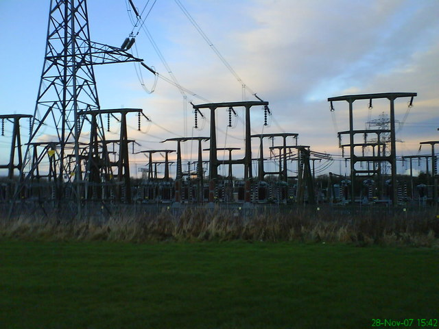 Power grid Gowkthrapple Pylons and power cables